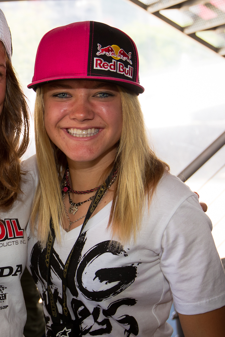 American motocross racer and WMX champion Ashley Fiolek at X Games 17 (2011).